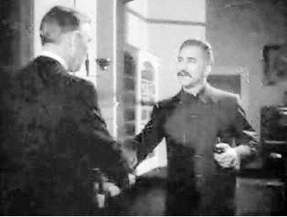 Scene of actors portraying Joseph Stalin and U.S. ambassador Joseph Davies, from trailer to movie Mission to Moscow